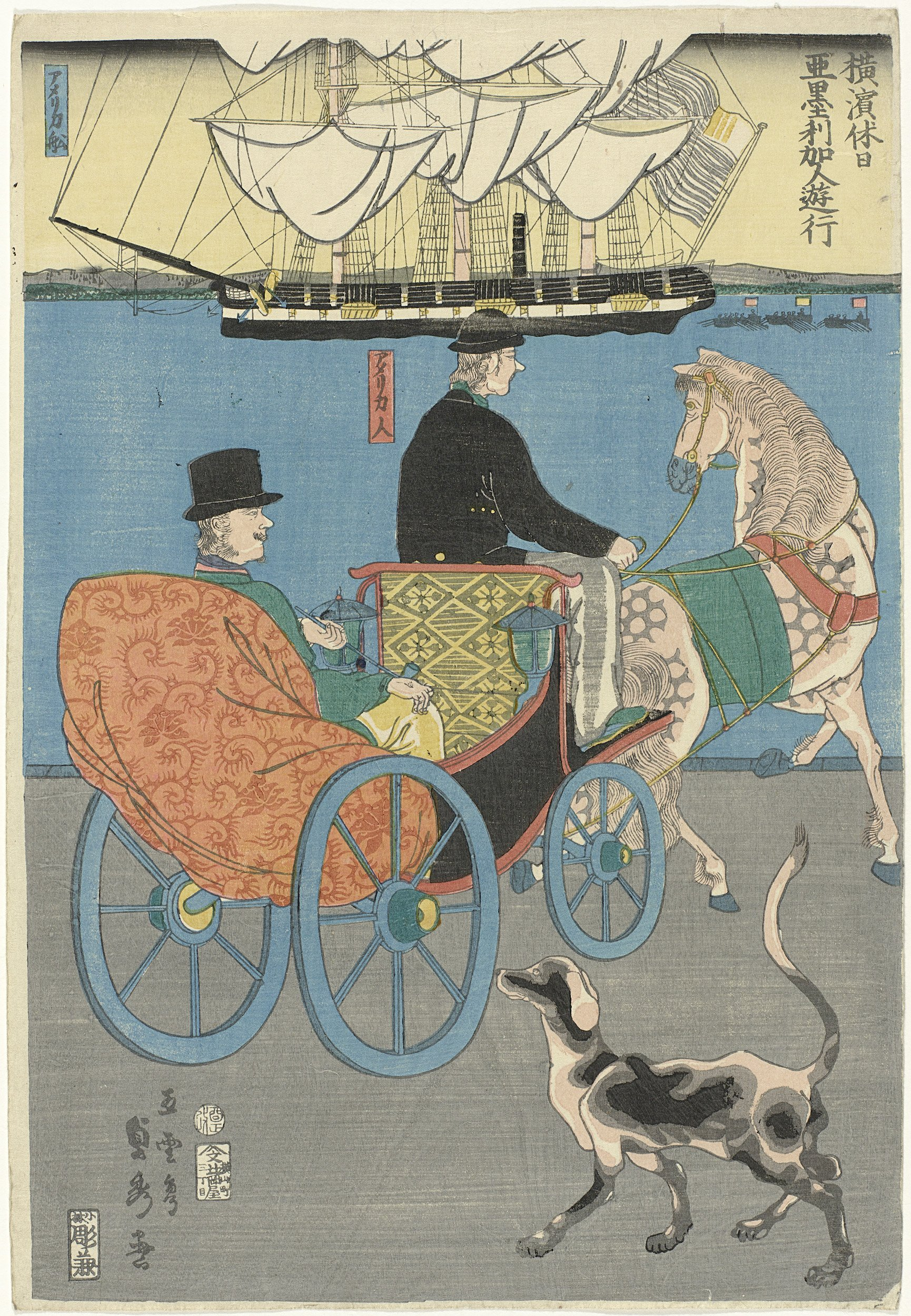 An American on an outing. On the foreground to the right a dog, behind which an open coach carries an American in a tall hat holding a pipe in his left hand. He is driven by an American driver. In the background an American ship in Yokohama harbor with to its right three rowing boats. Part of a series of foreigners on the wharves of Yokohama, that also includes File:Russen op een uitje-Rijksmuseum NG-663-5.jpeg. Scenes like this are known as Yokohama-e. Carver seal is Kobayashi hori Kane (Kobayashi Kangegorō).